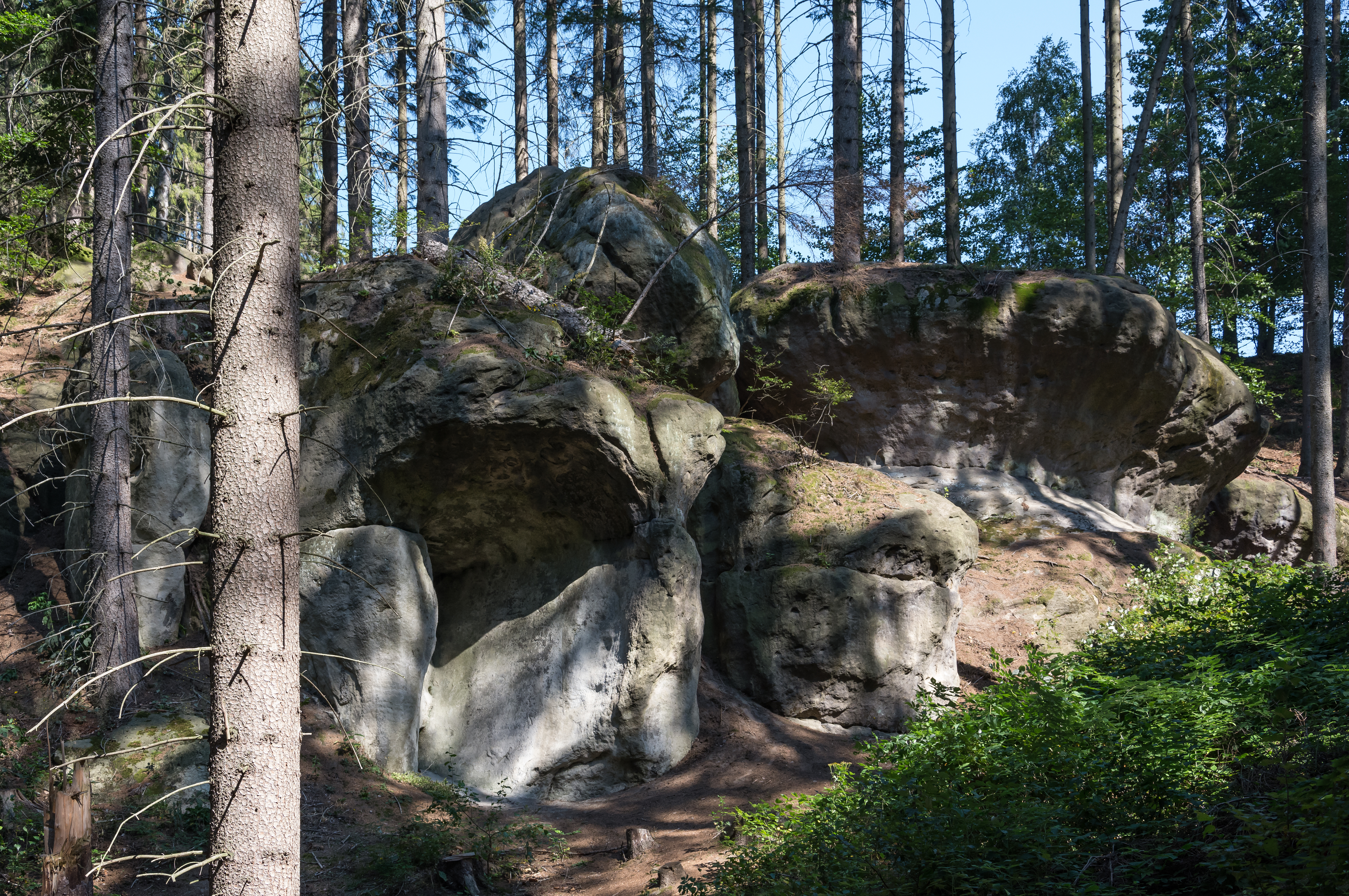 Nature reserve Głazy Krasnoludków